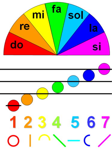 Description: conlang Solresol ti=si Source: own Date: June 2005 (German Wikipedia Author: Immanuel Giel 12:13, 22 Jun 2005 (UTC) Other versions: none